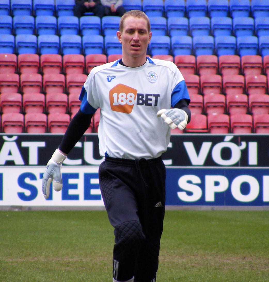 Chris Kirkland, Wigan Athletic v Tottenham Hotspur, 21st February 2010